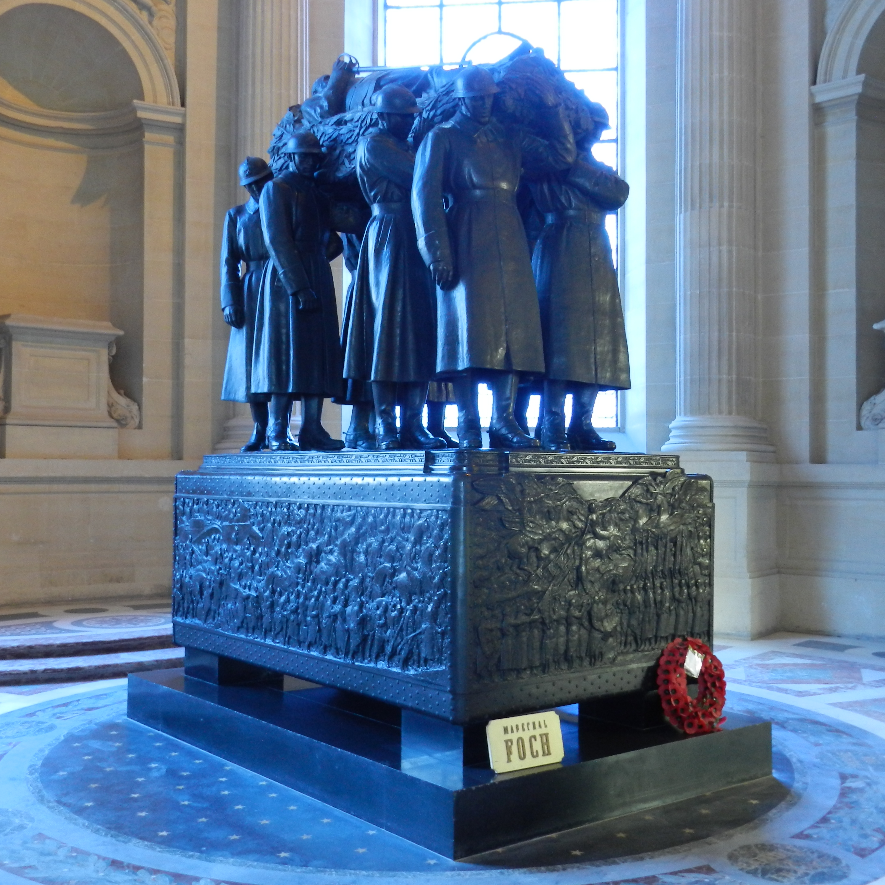 Ferdinand Foch's tomb at Les Invalides in Paris.